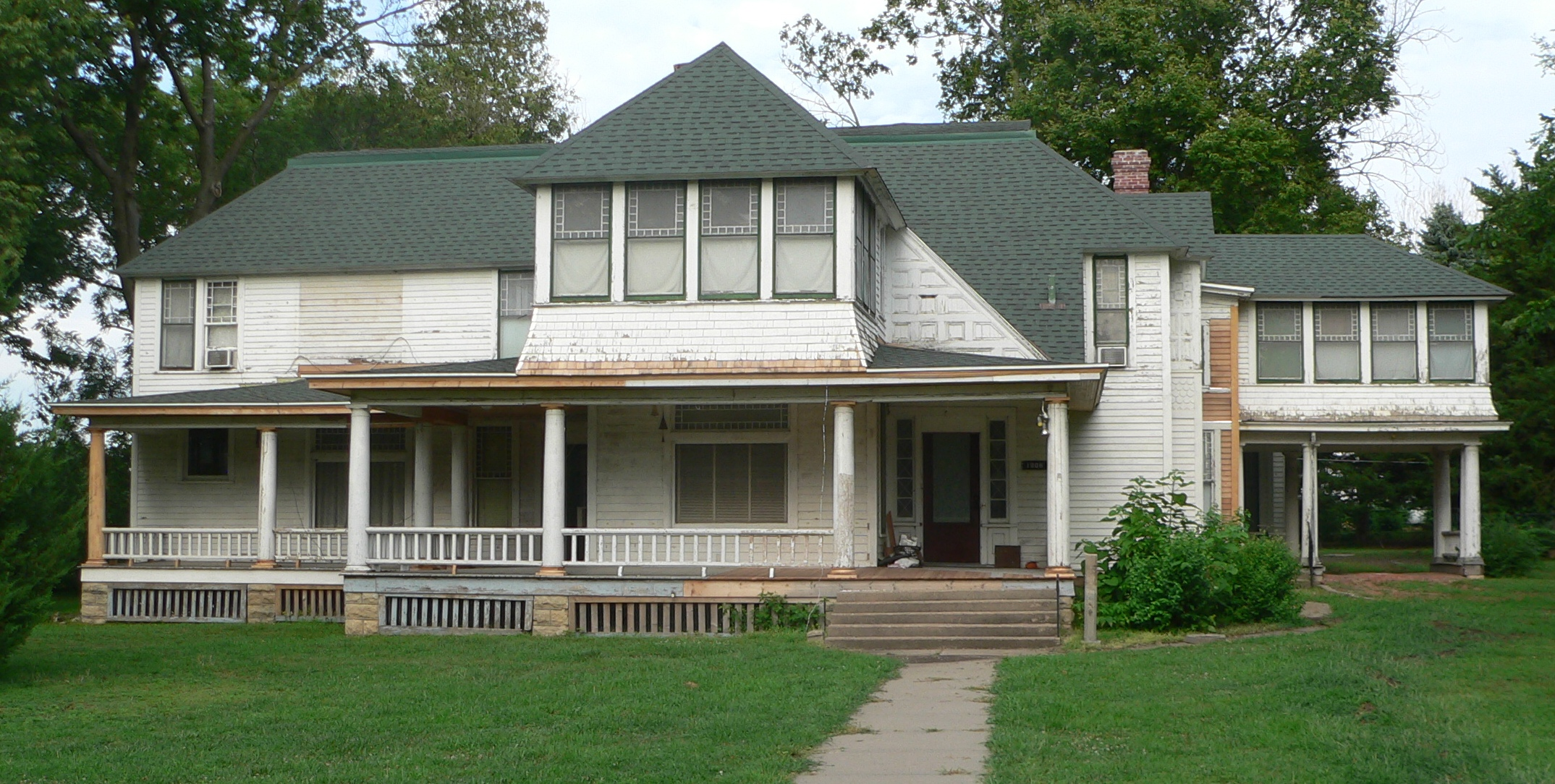 Governor Arthur J. Weaver house, located at 1906 Fulton Street (northeast corner of 19th and Fulton) in Falls City, Nebraska; seen from the west.